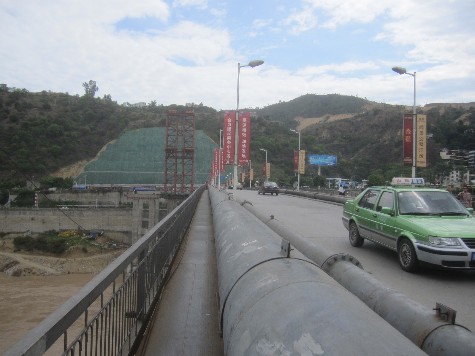 The pipelines which used to transport tailings of iron ores and the narrow sidewalks on Midi Jinsha River Bridge.